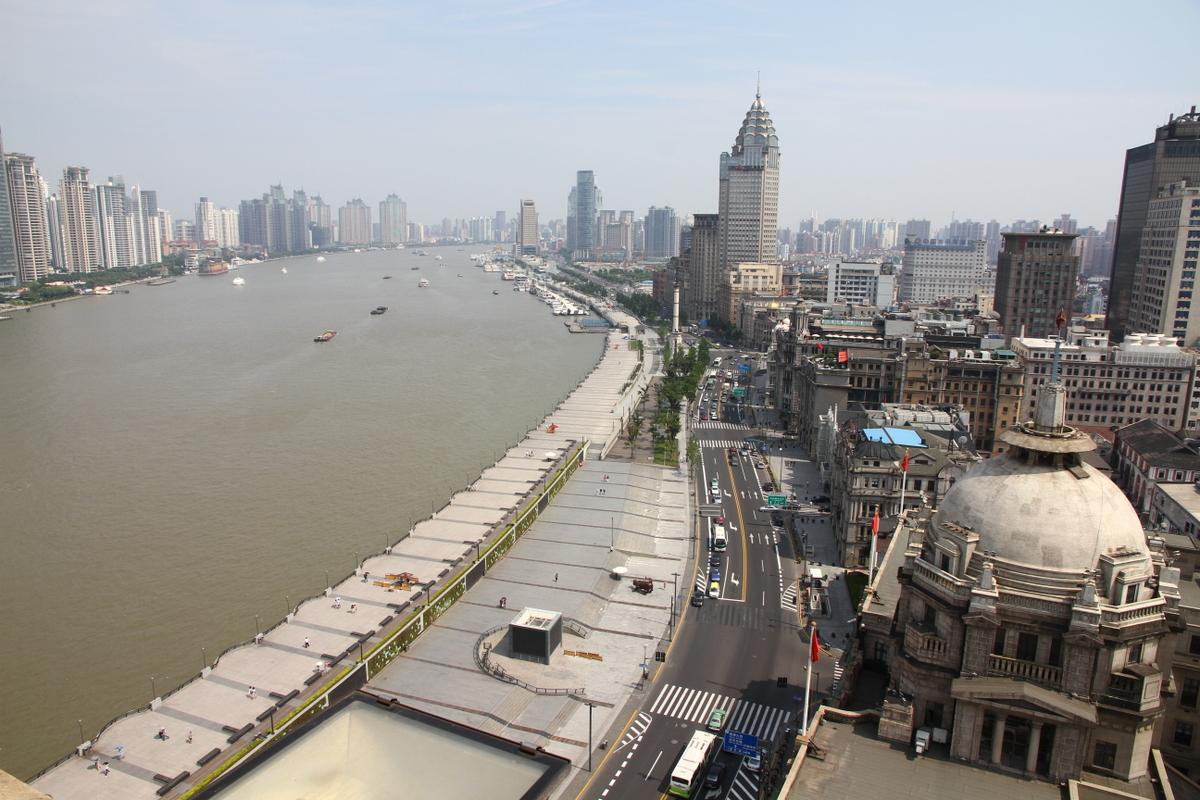 The bund, looking south as viewed from the custom house bell tower. The custom house is a government building and the bell tower is only open to official visits.